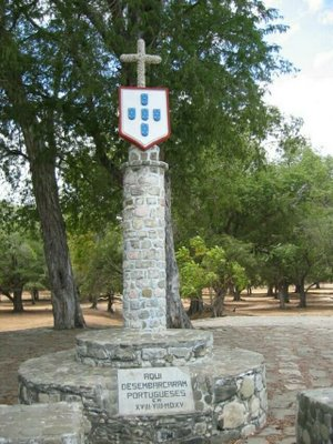 imagen do monumento lifau